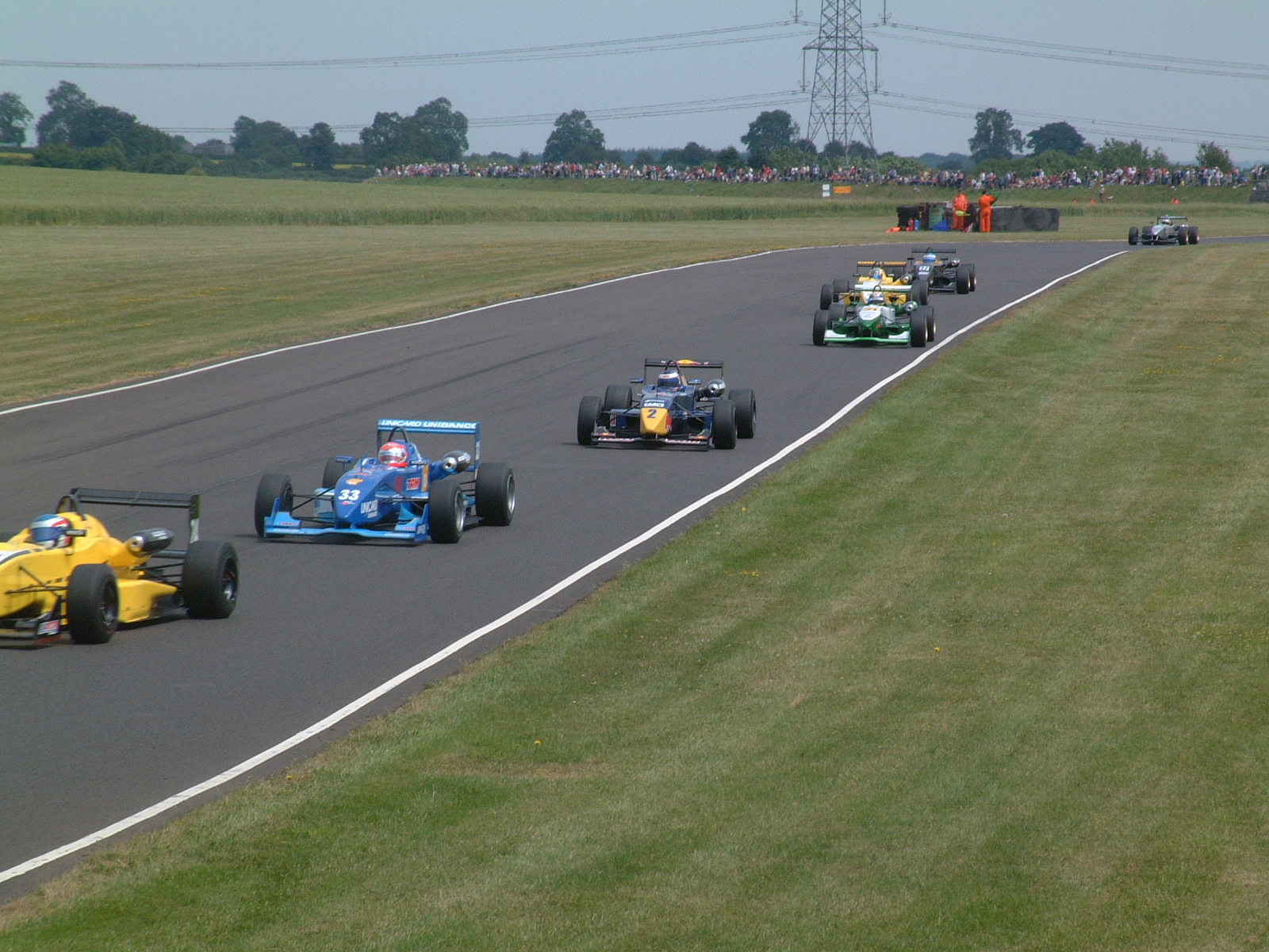 A British F3 race at Castle Combe Circuit.